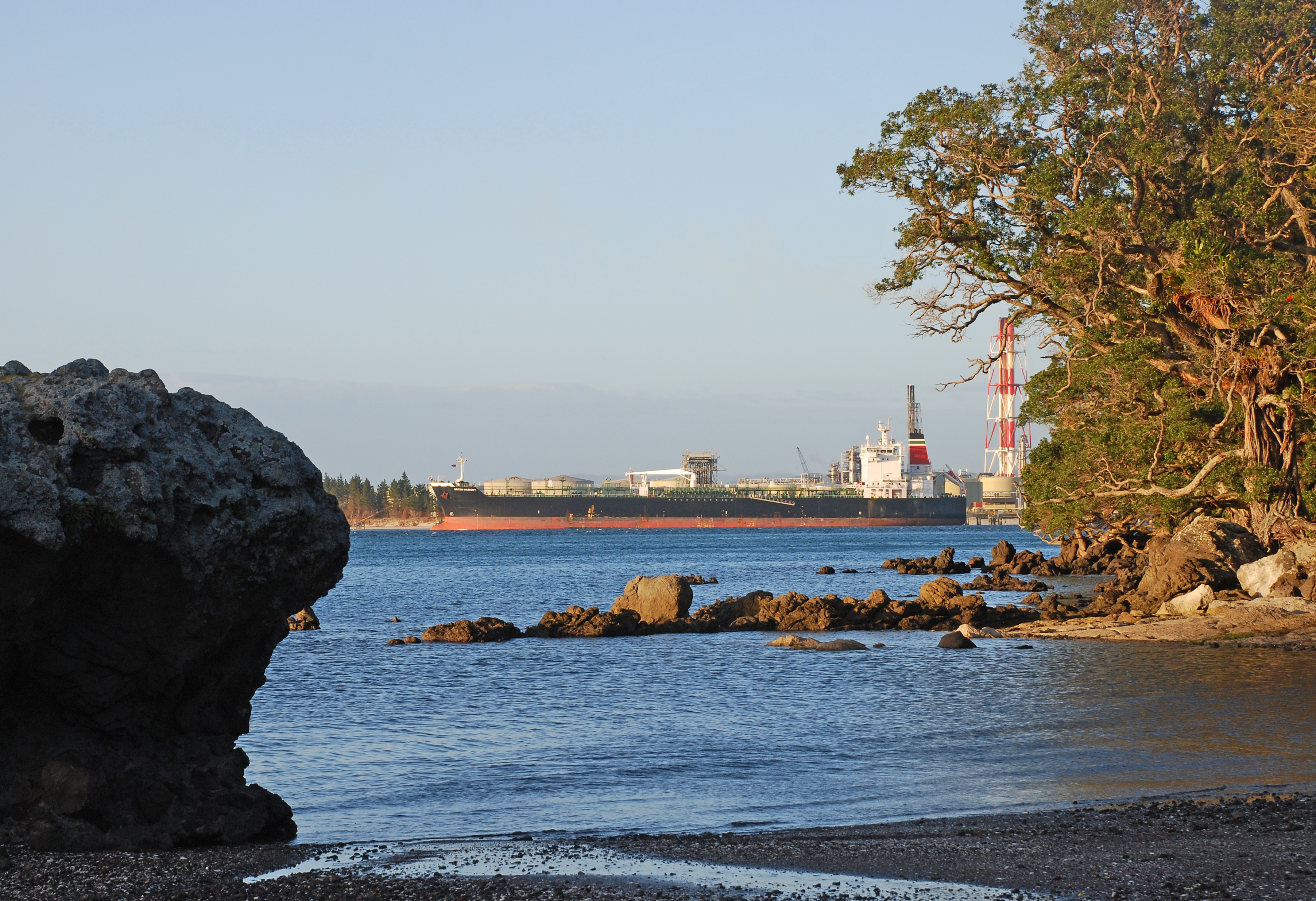 Tanker unloading at Marsden Point refinery, Northland, New Zealand, 12 October 2007